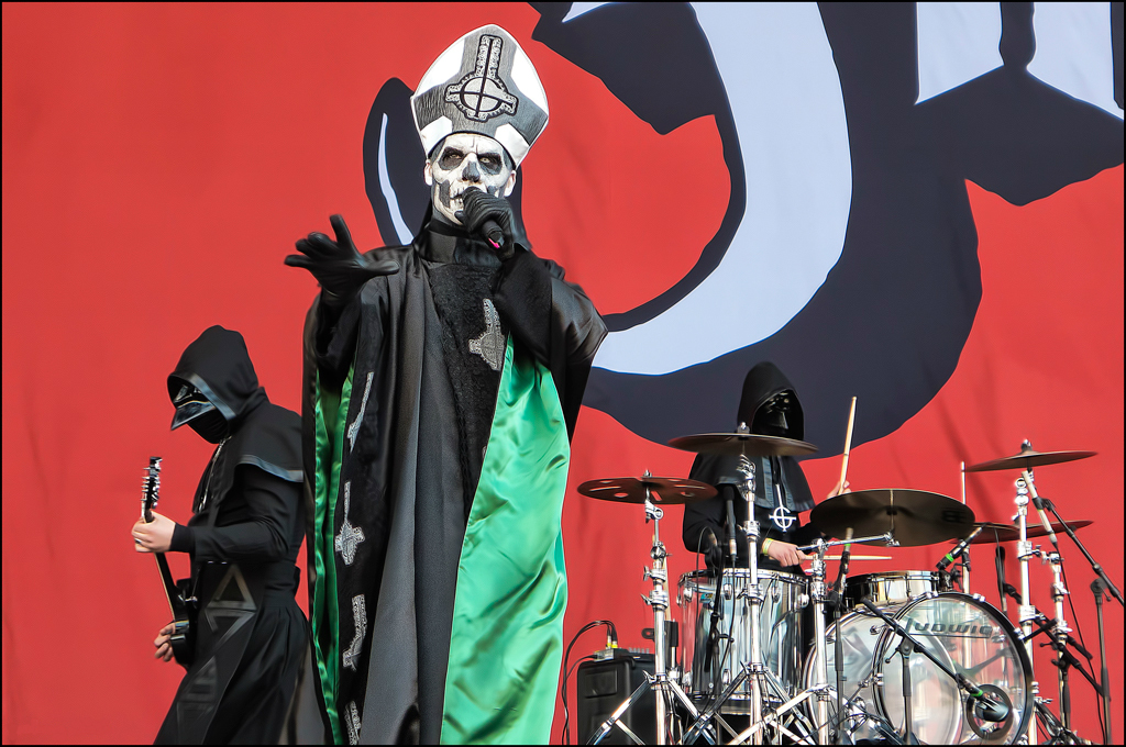 Ghost performing live at Sonisphere Madrid, 2013.